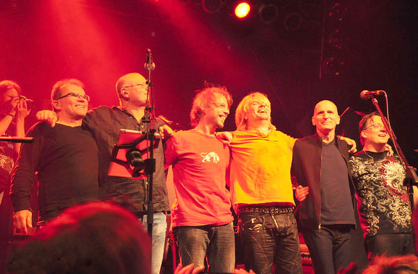 Karibow live featuring Michel Sadler